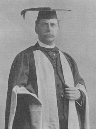 Photograph of English dermatologist Henry Radcliffe Crocker (1846-1909), taken by Hermann Ernst in 1890s or early 1900s, printed in the British Medical Journal with Crocker's obituary in 1909.